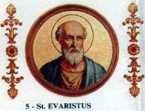 Portrait of Pope Saint Evaristus I in the Basilica of Saint Paul Outside the Walls, Rome